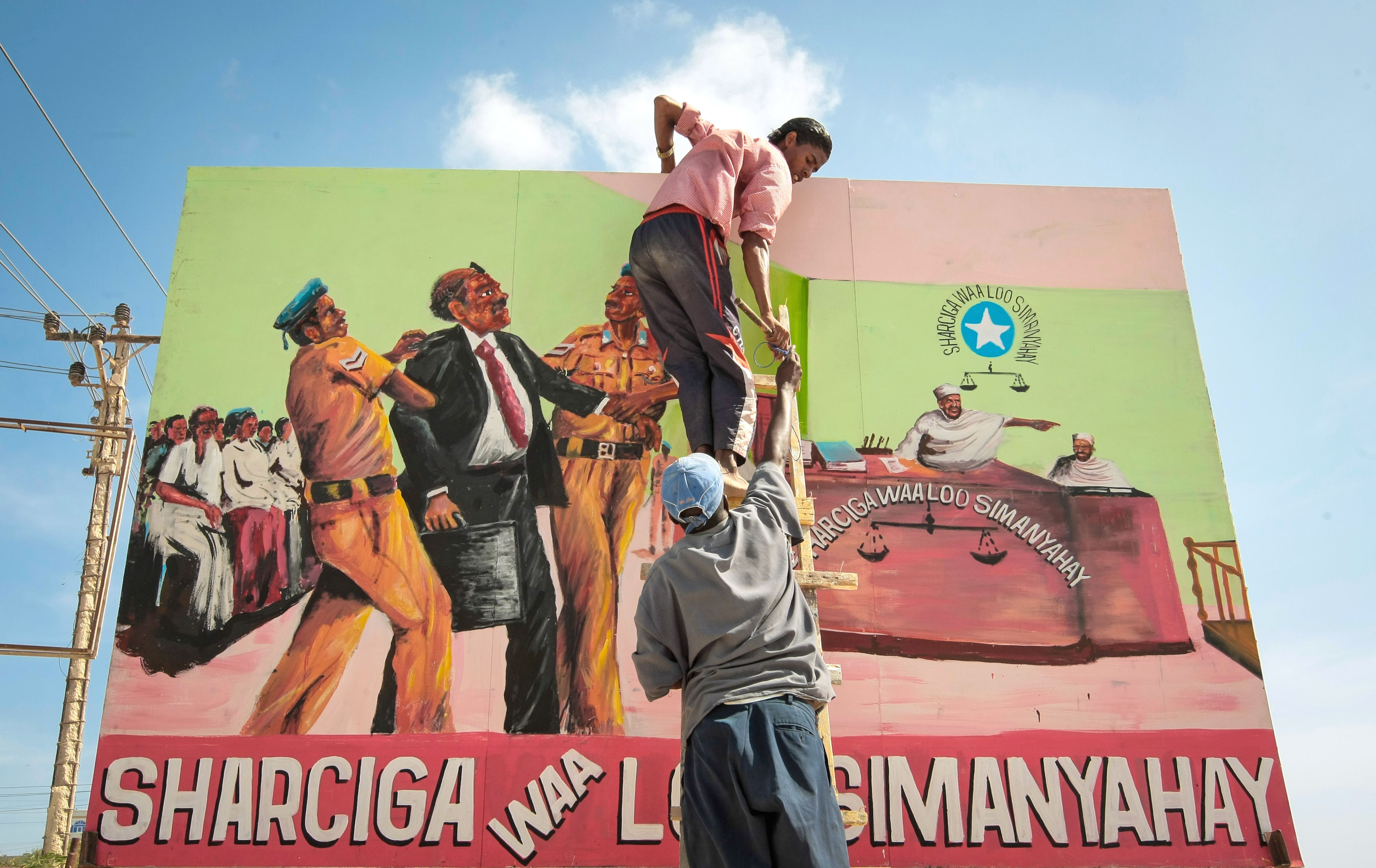 A billboard mural saying “Before the law, all people are equal” is fixed into place by a cooperative of artists along the approach road to Mogadishu International Airport as part of a project in cooperation with the Centre for Research and Dialogue (CRD) designed to mobilise and educate people through art to better understand and absorb the differences, benefits and realities between conflict and peace. During the occupation of the city by the Al-Qaeda-affiliated militant group Al Shabaab up until August 2011, many Somali artists were either forced to work in secret or stop practising their art all together for fear of retribution and punishment by the extremist group who were fighting to overthrow the internationally-recognised then transitional government and implement a strict and harsh interpretation of Islamic Sharia law. After 20 years of near-constant conflict, Mogadishu and large areas of Somalia are now enjoying the longest period of peace in years after sustained military operations by the Somali National Army (SNA) backed by the forces of the African Union Mission in Somalia (AMISOM) forced Al Shabaab to retreat from many areas of the country precipitating something of a renaissance for Somali artists and business, commerce, sports and civil liberties and freedoms flourishing once again. AU-UN IST PHOTO / STUART PRICE.